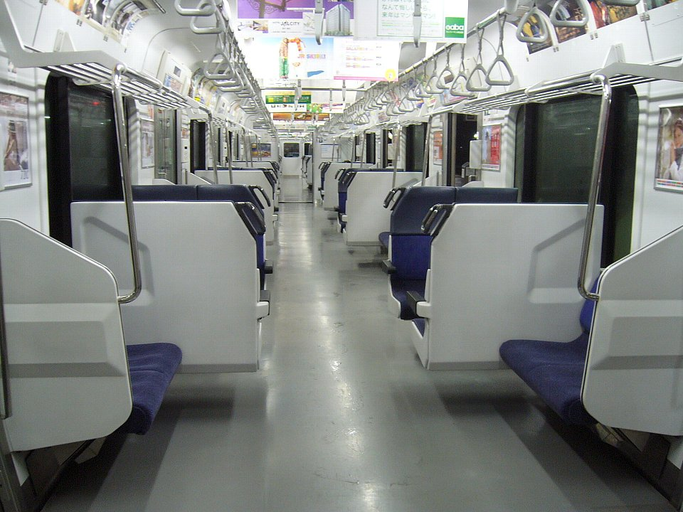 Interior view of a JR East E231-1000 series (suburban type) EMU (car SaHa E231-3005) with transverse seating bays